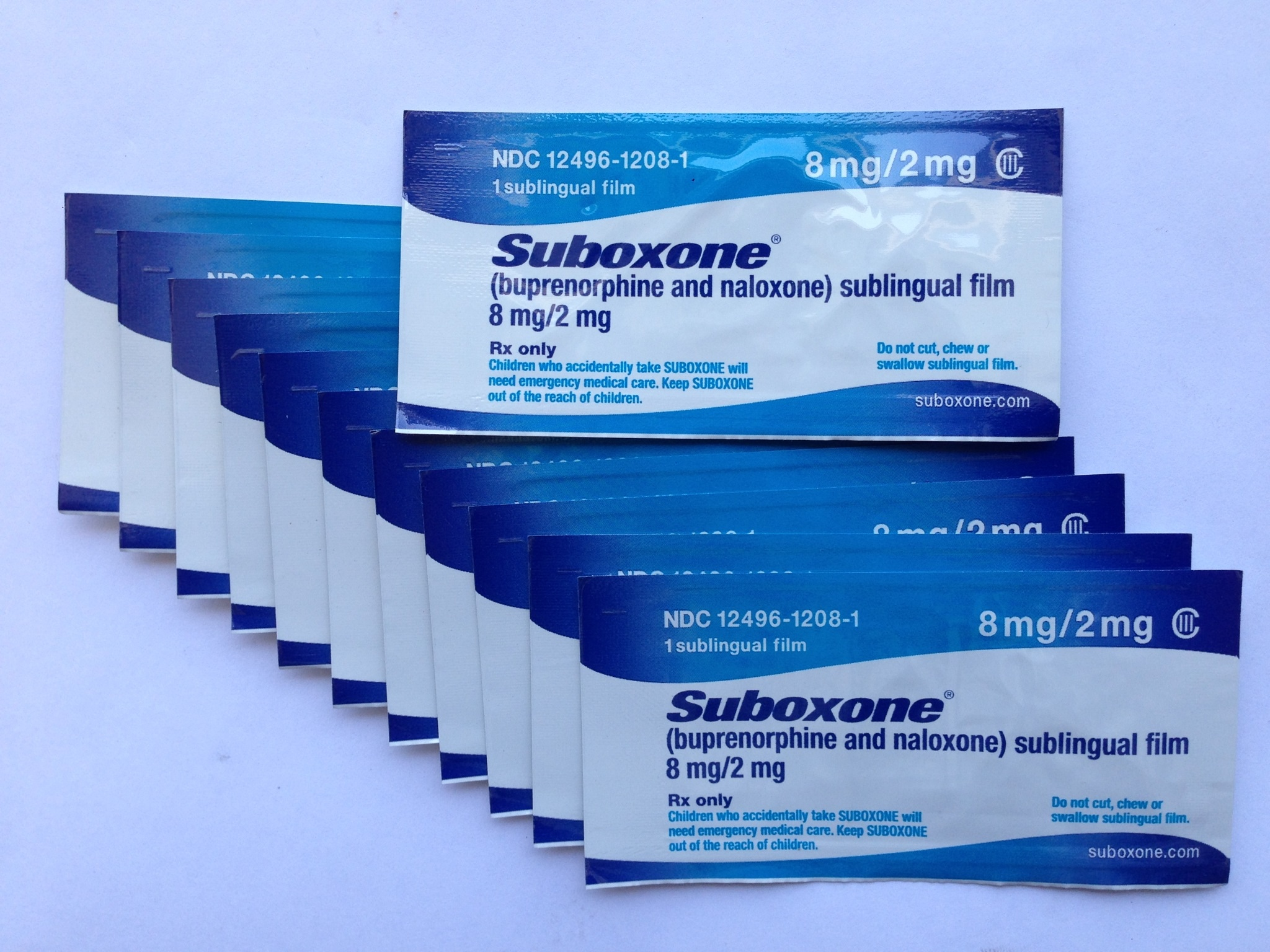 Sublingual Suboxone(Buprenorphine/Naloxone 8mg/2mg) Tablets